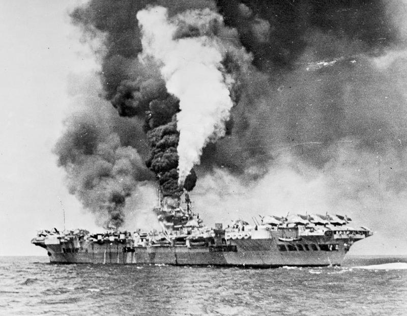 The Central Pacific Front 1943-1945 Okinawa, April - June 1945: The aircraft carrier HMS FORMIDABLE on fire after being struck by a Kamikaze off Sakishima Gunto. As seen from HMS VICTORIOUS.